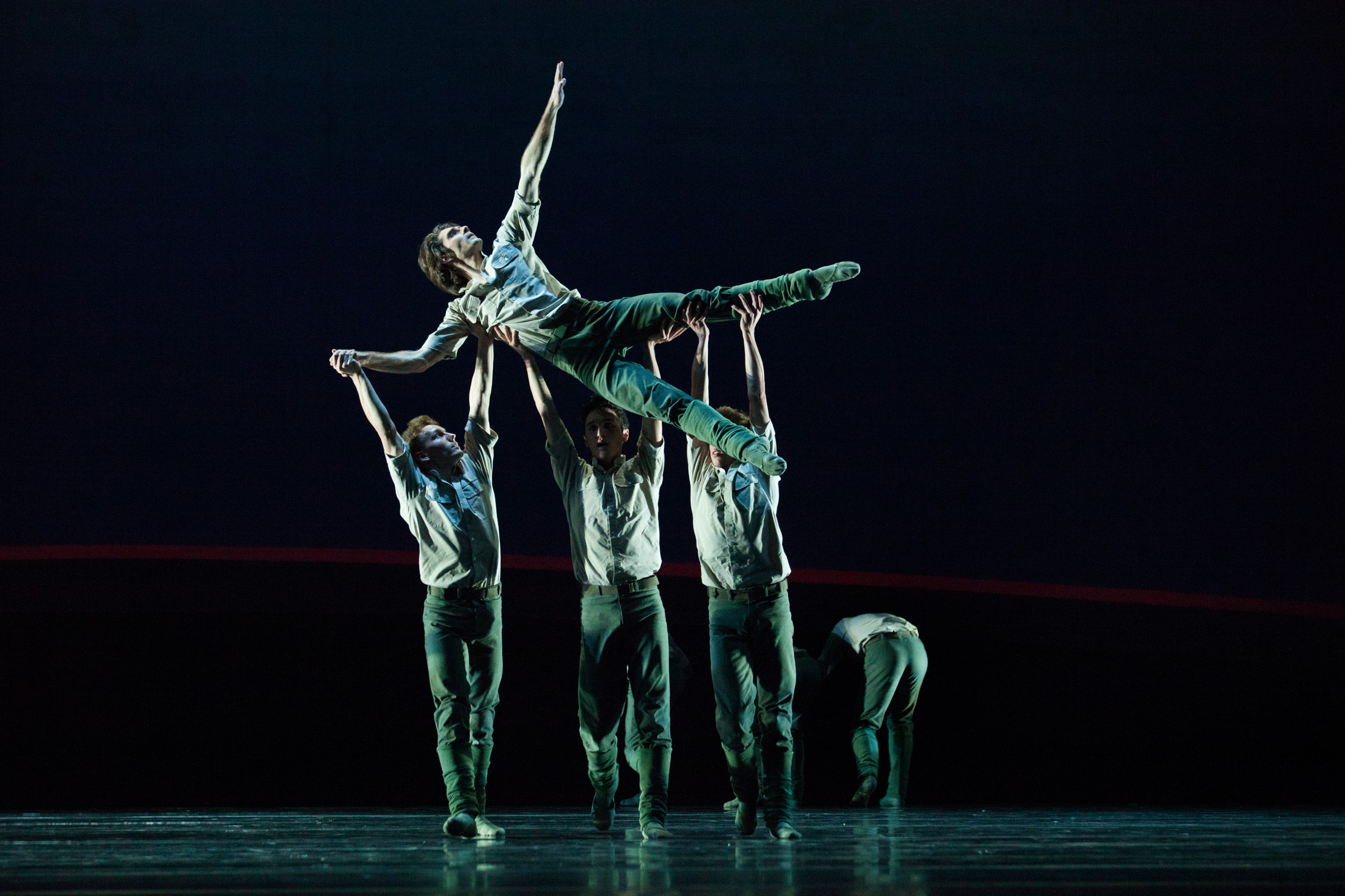 "Soldiers' Mass" by Jiří Kylián, Polish National Ballet, dancers: Vladimir Yaroshenko and Adam Myśliński, Lachlan Phillips & Patryk Walczak